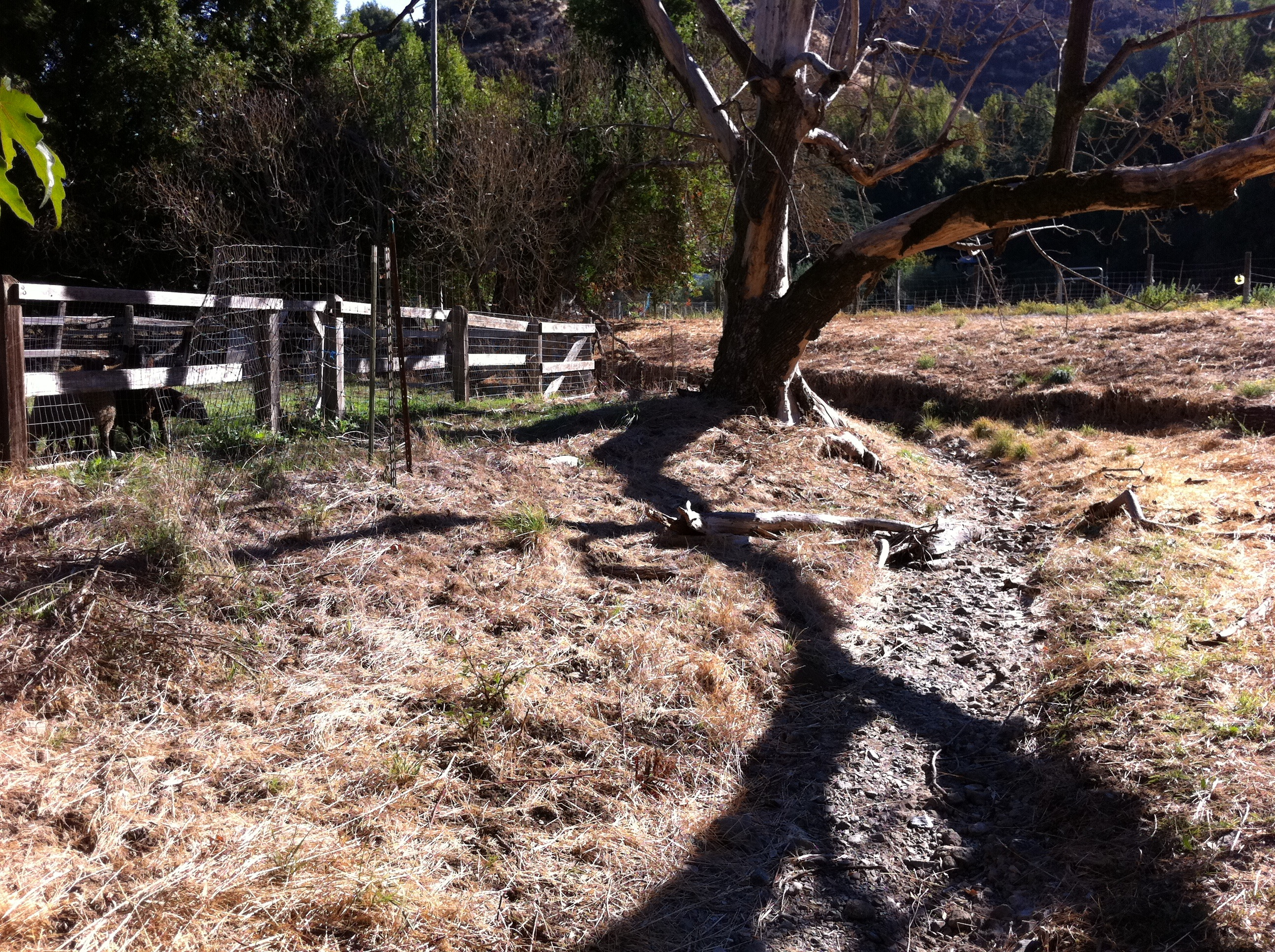 Adobe Creek (near Los Altos, California). Loss of riparian vegetation, perhaps from grazing, leads to increase in stream velocity and erosion and channel incision downstream